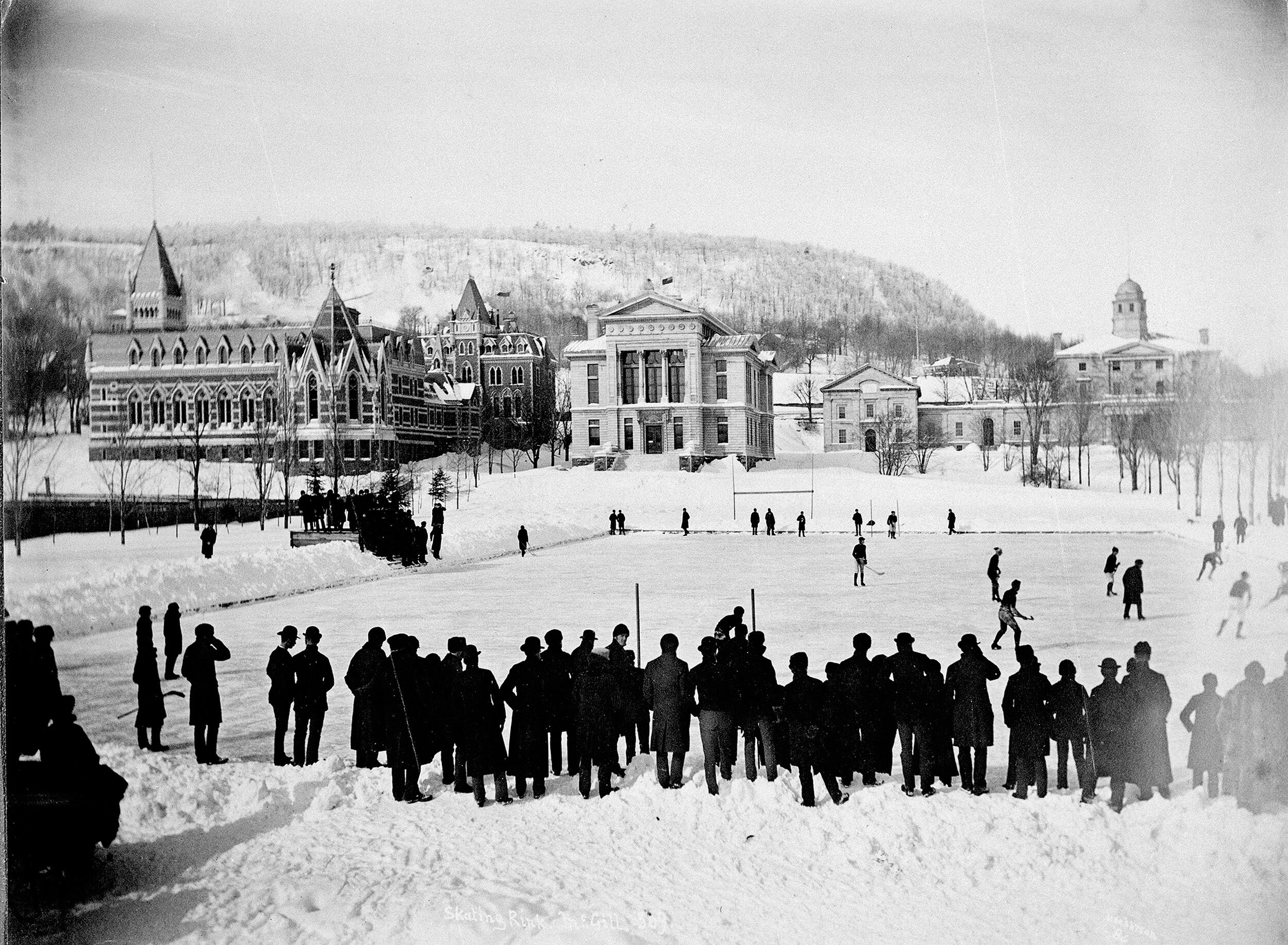 Playing hockey on the skating rink at McGill University, Montreal, Quebec, Canada. This action photo of the McGill University men’s hockey team was taken on the McGill campus by Alexander Henderson during the 1884 Winter Carnival Hockey Tournament in Montreal. It is believed to be the earliest known photograph of a hockey game in action.